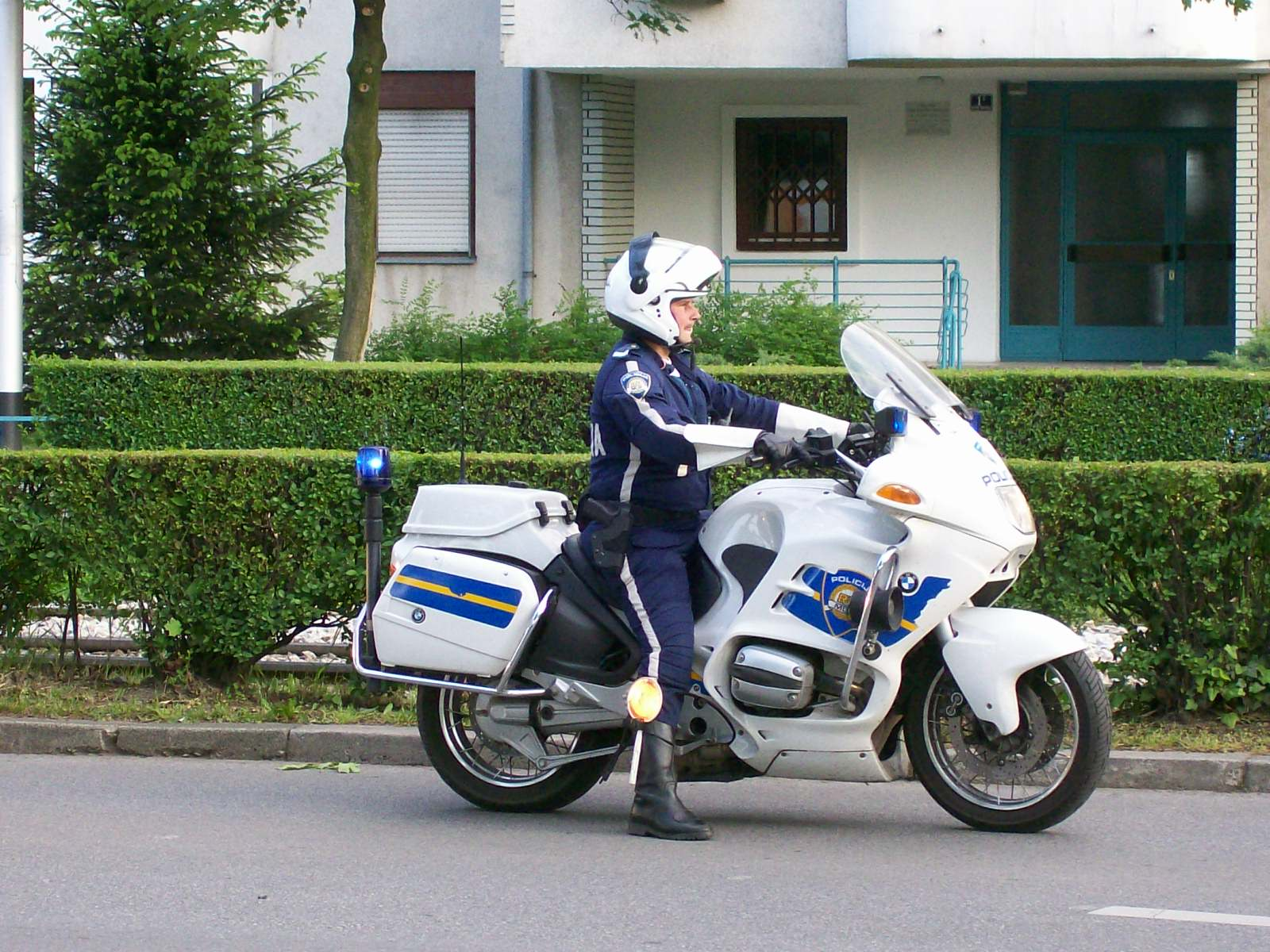 Croatian police motorcycle